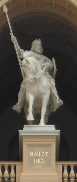 statue of Niklot, ruler of the Obotrites